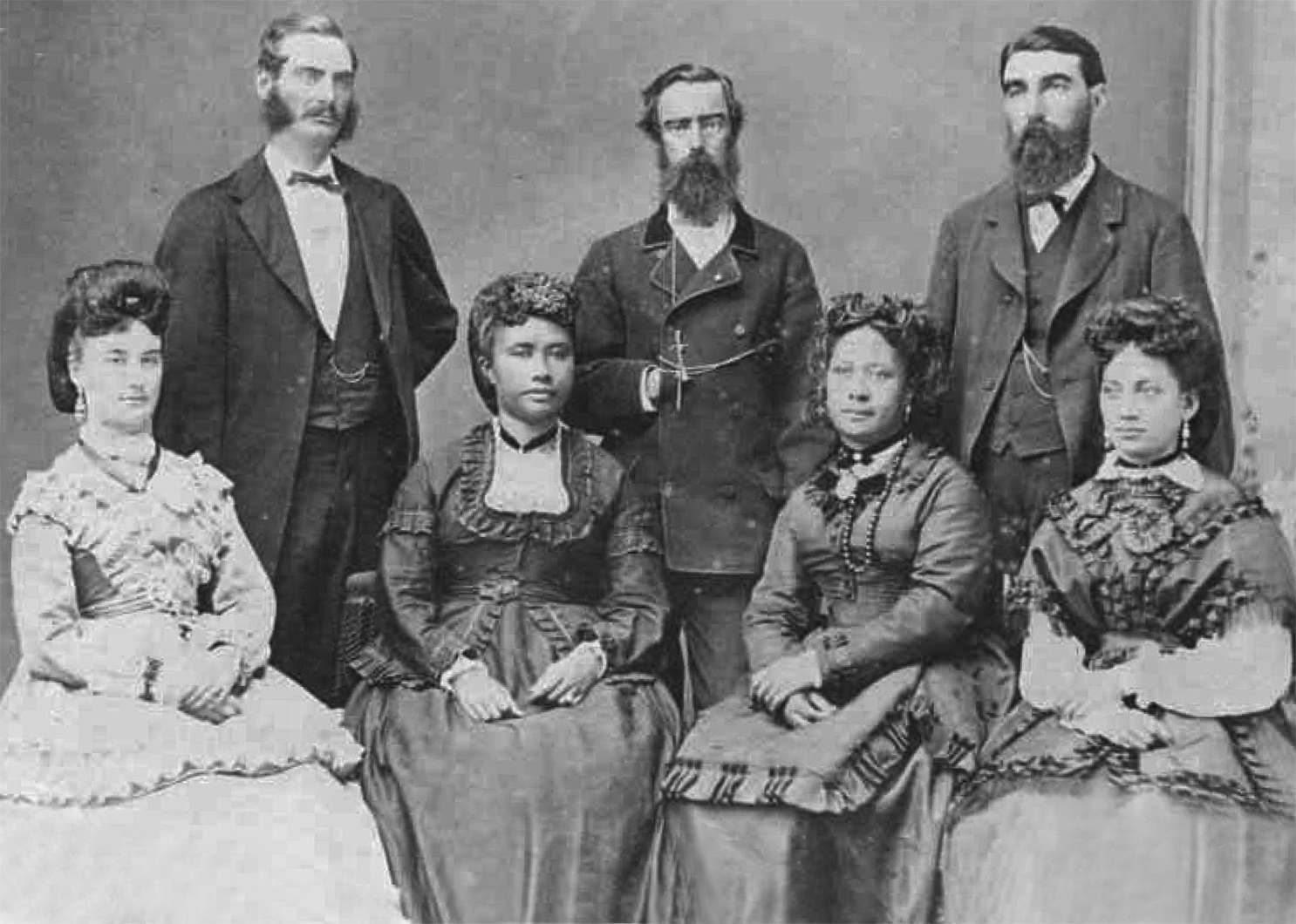 Seated (from left to right) Laura Cleghorn (?–?), Princess Liliʻuokalani, Princess Likelike and Kapeka Sumner. Standing (from left to right) Thomas Cleghorn (?–?), John Owen Dominis and Archibald Scott Cleghorn.